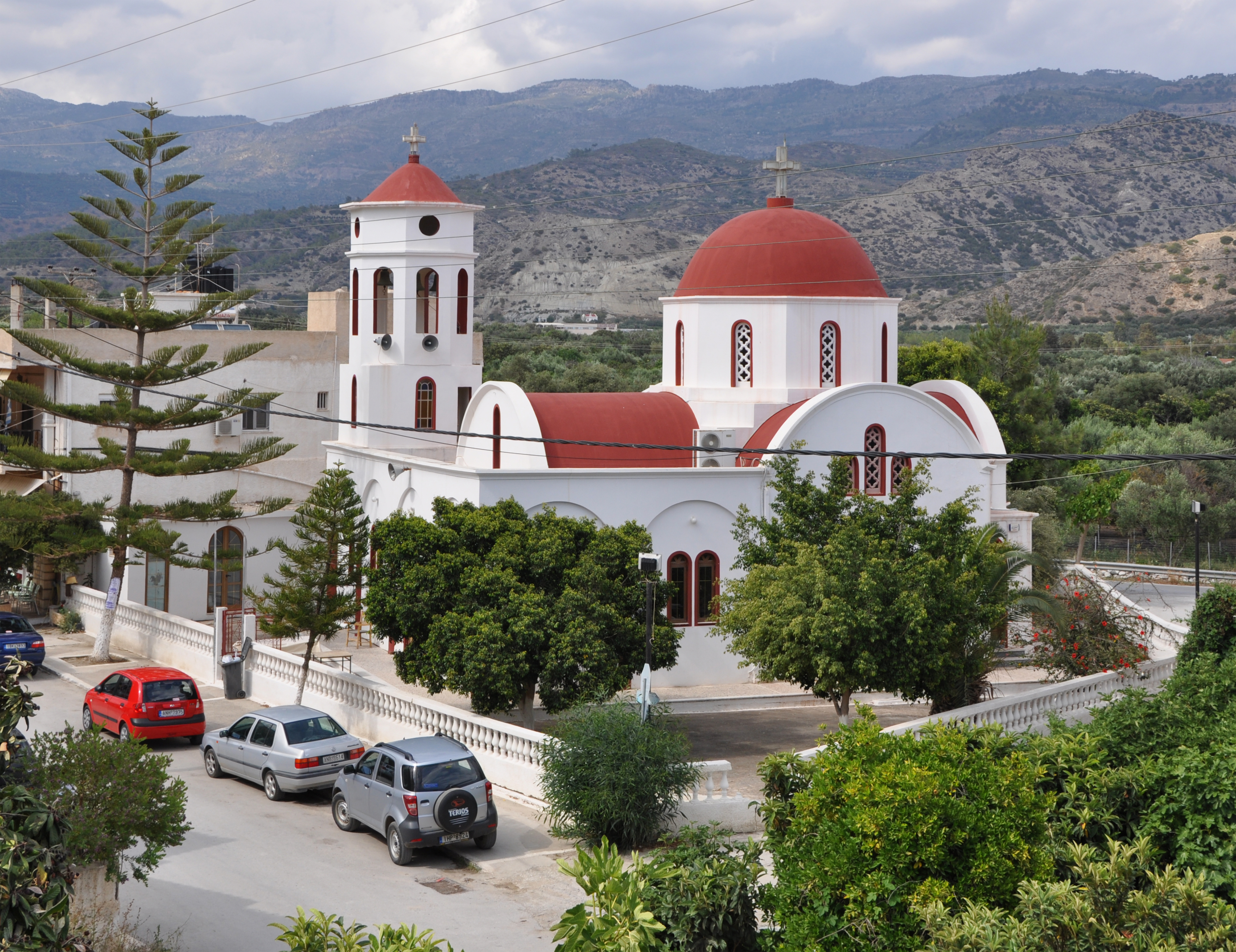 Myrtos (Crete, Greece): the church